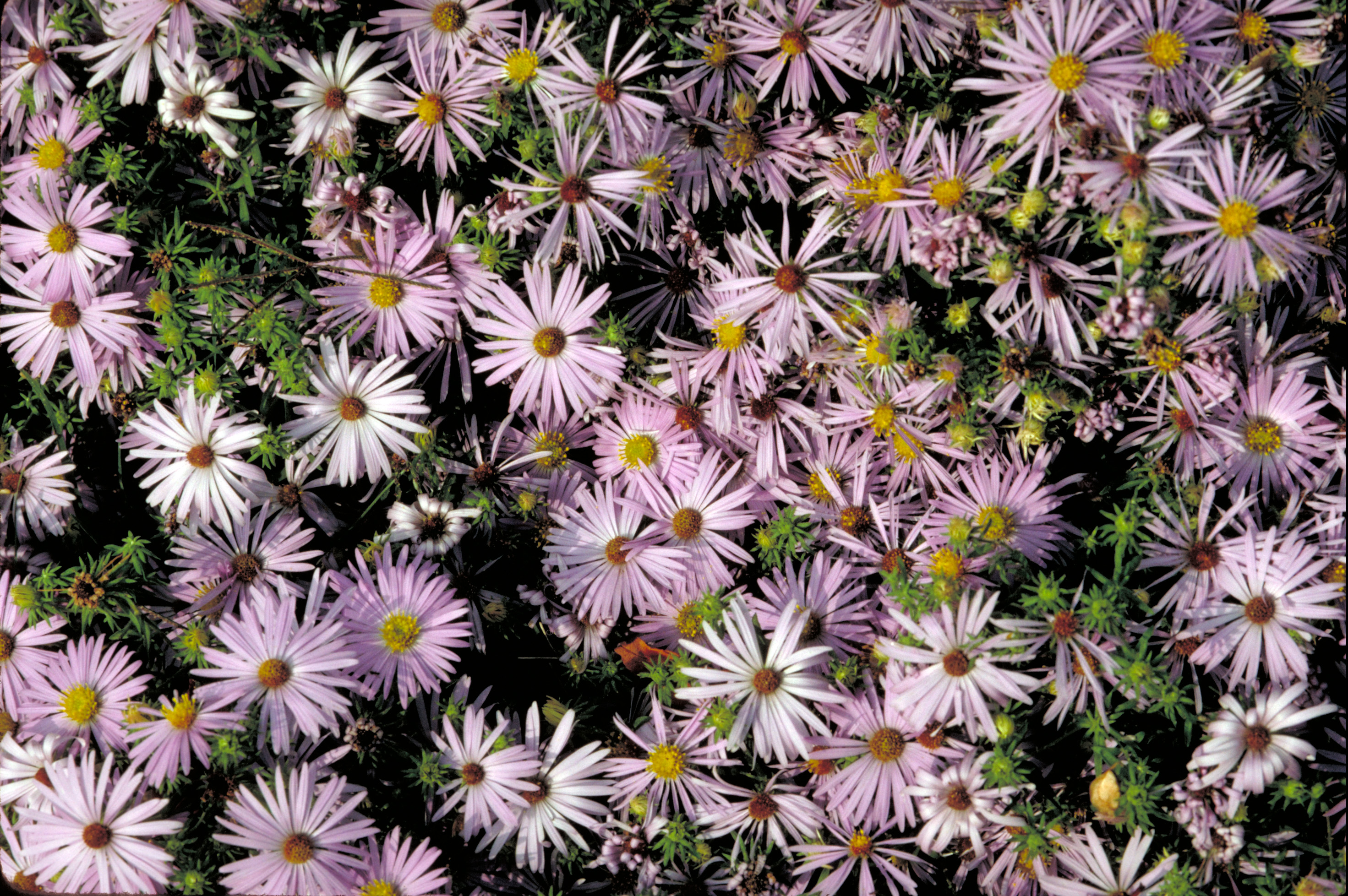 Aromatic Aster - Aster oblongifolius